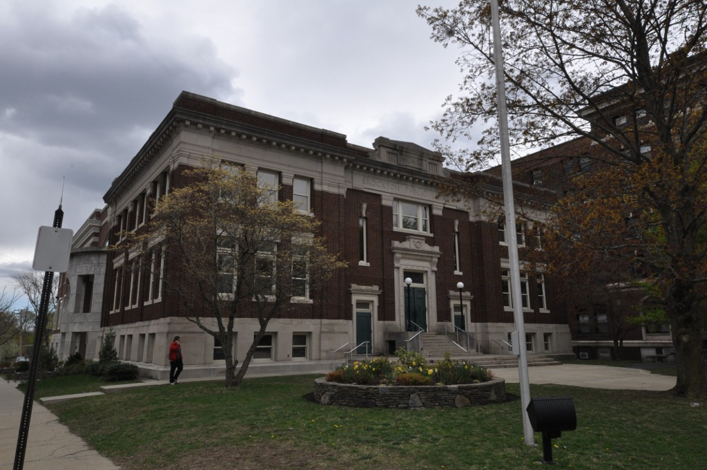 The public library building of Brockton, Massachusetts. Funded in part by a Carnegie grant.